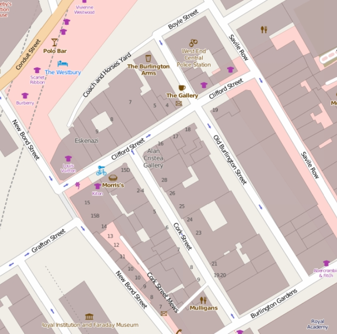 Clifford Street, London W1.